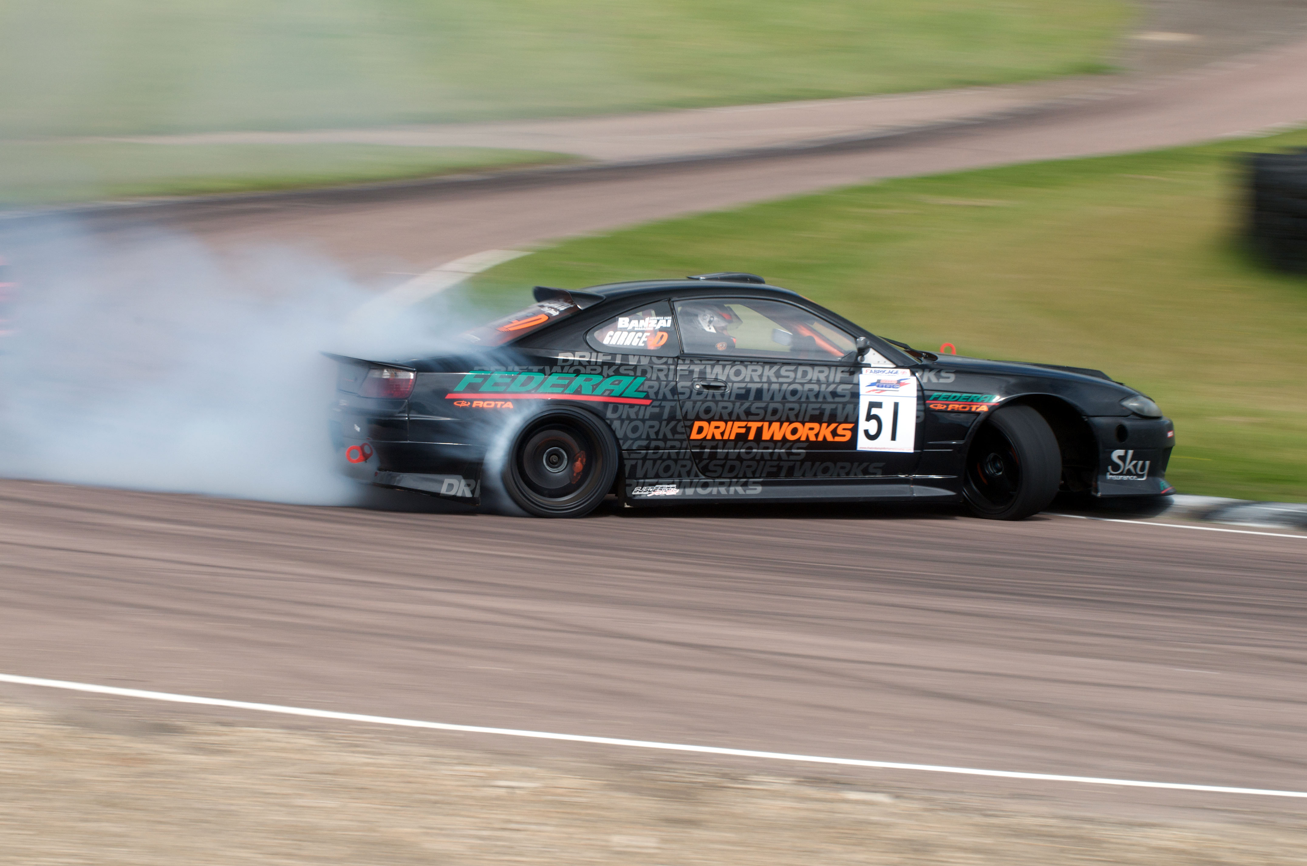 Nissan Silvia S15 Driftworks